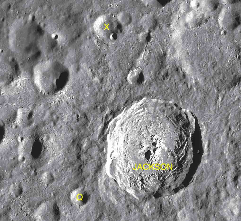 Part of the chart LAC-51 used for the presentation